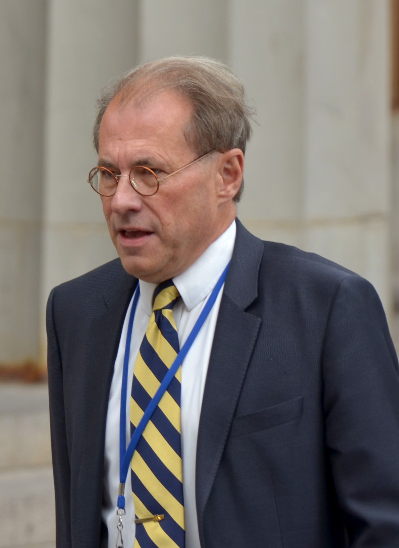 Per Westerberg, speaker of the swedish parliament.